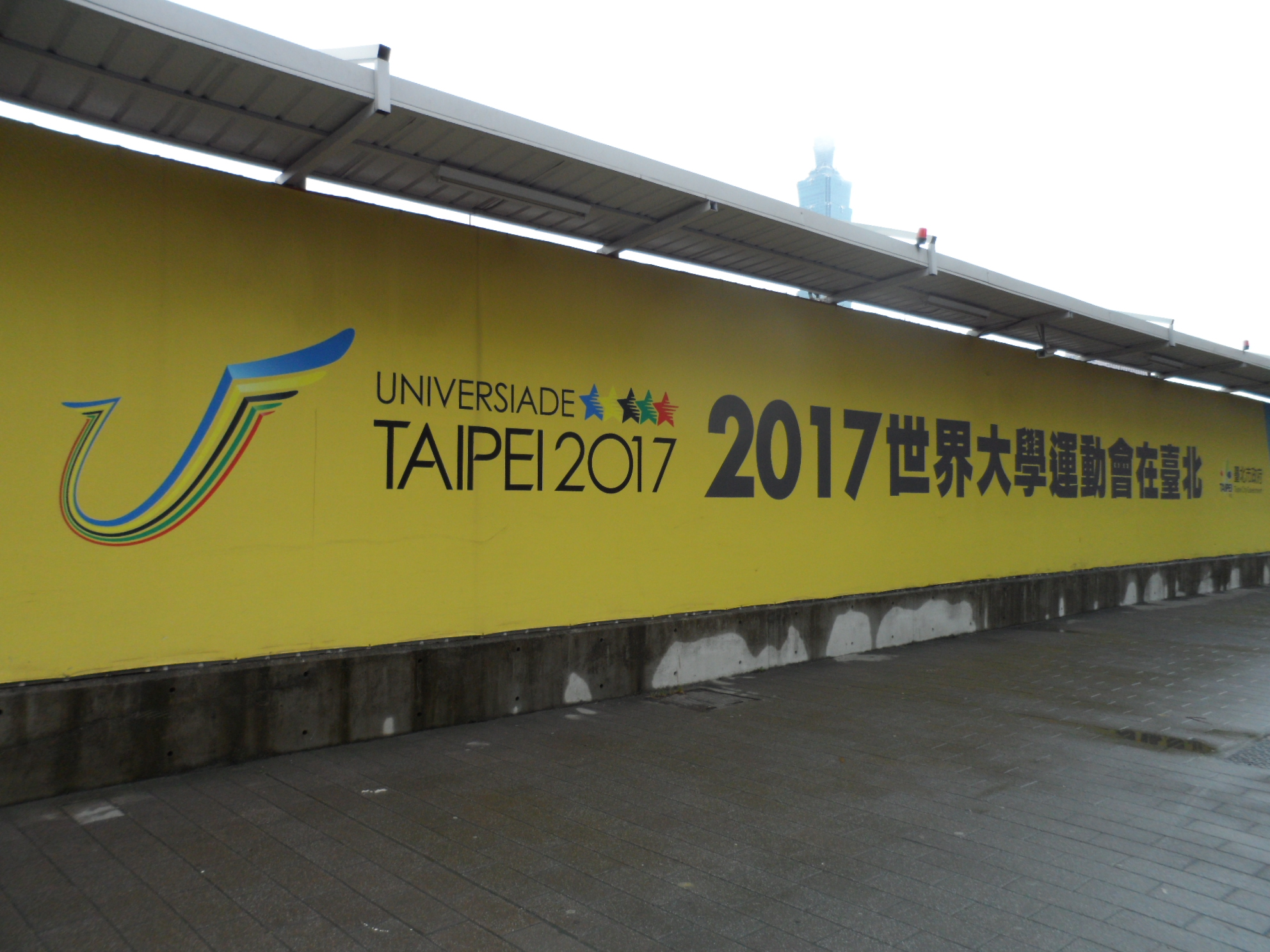 A signboard of the 2017 Summer Universiade on the wall around Taipei Dome construction site, made by Taipei City Government.